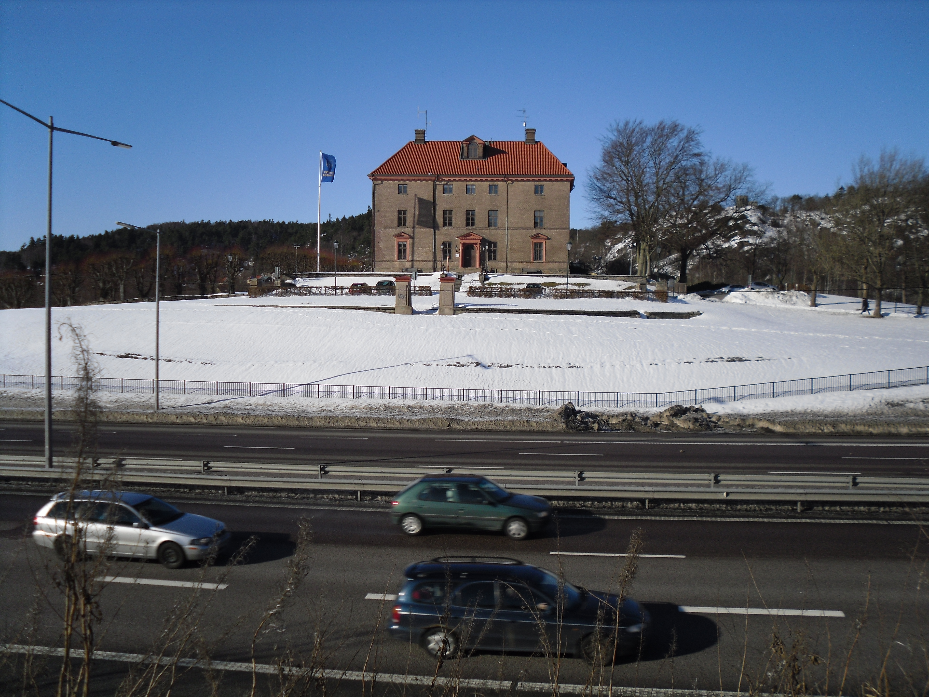 Winter at Partille, Sweden. Partille Manor.